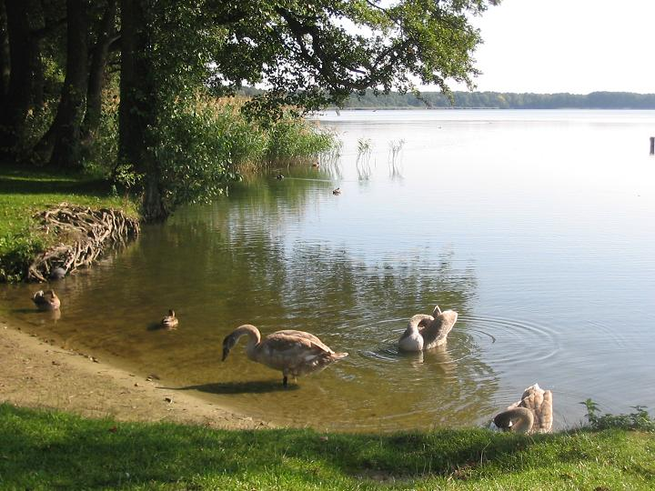 Lido Großer Wünsdorfer See. The Große Wünsdorfer See is a German lake in the town Zossen, district Teltow-Fläming, state Brandenburg, Germany.